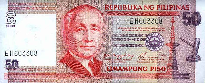 Front side of the New Design series 50-Philippine peso bill. Winaray : Atubangan nga bahin han 50-Pilipino nga peso bill.